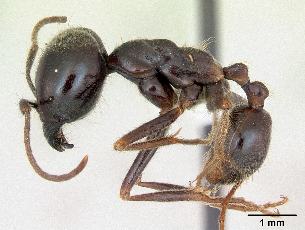 Profile view of ant Labidus praedator specimen casent0173515.